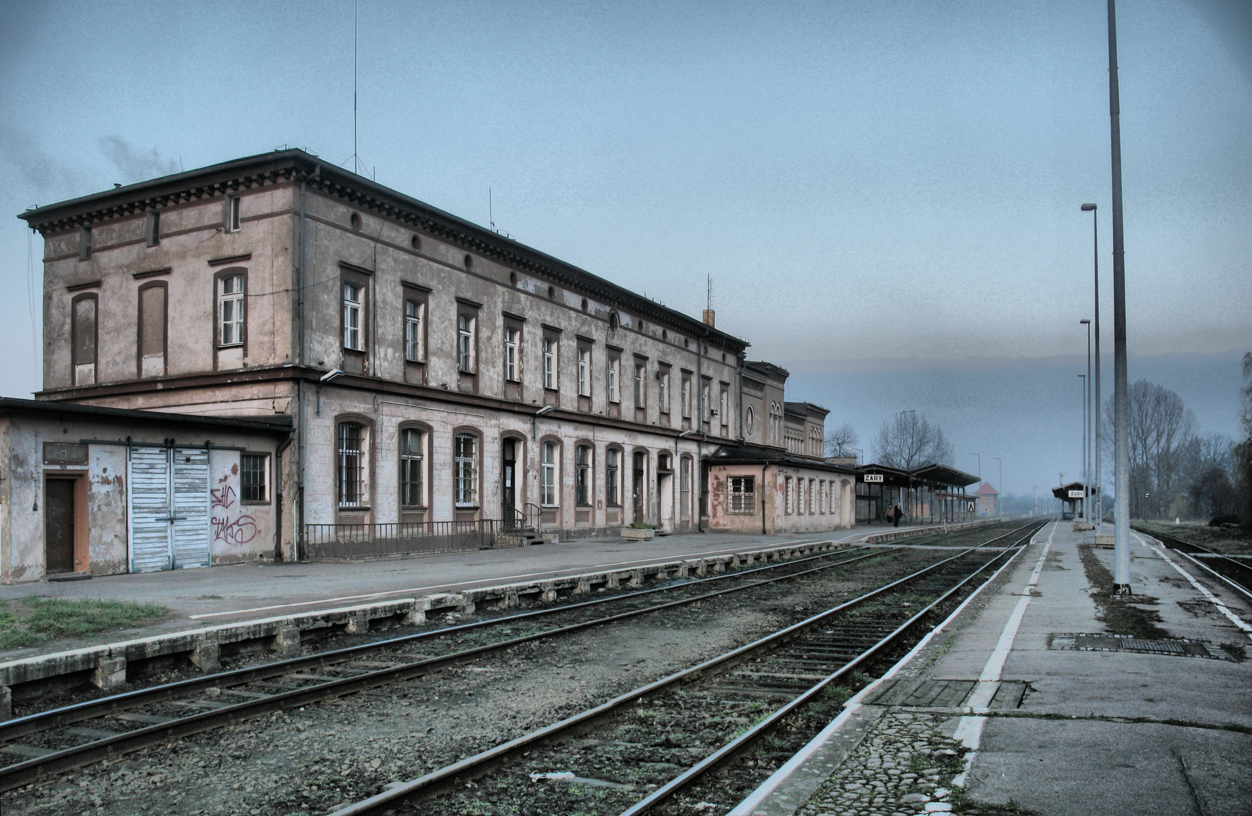 The railway station in Żary - platforms